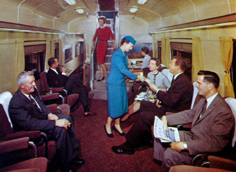 Photo of the lower level of a California Zephyr Vista-Dome car. This one was one of the two for sleeping car passengers only. The train's Zephyrette is seen in this photo in her blue uniform.